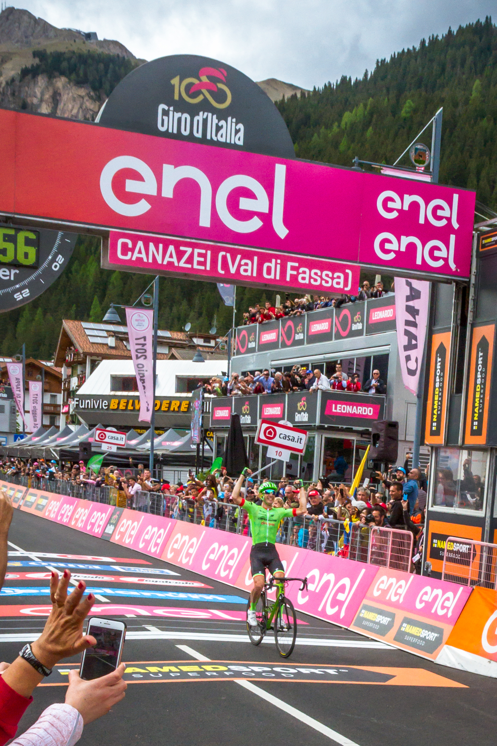 Pierre Rolland winning stage 17 of the Giro d'Italia, in Canazei, Italy. 2017